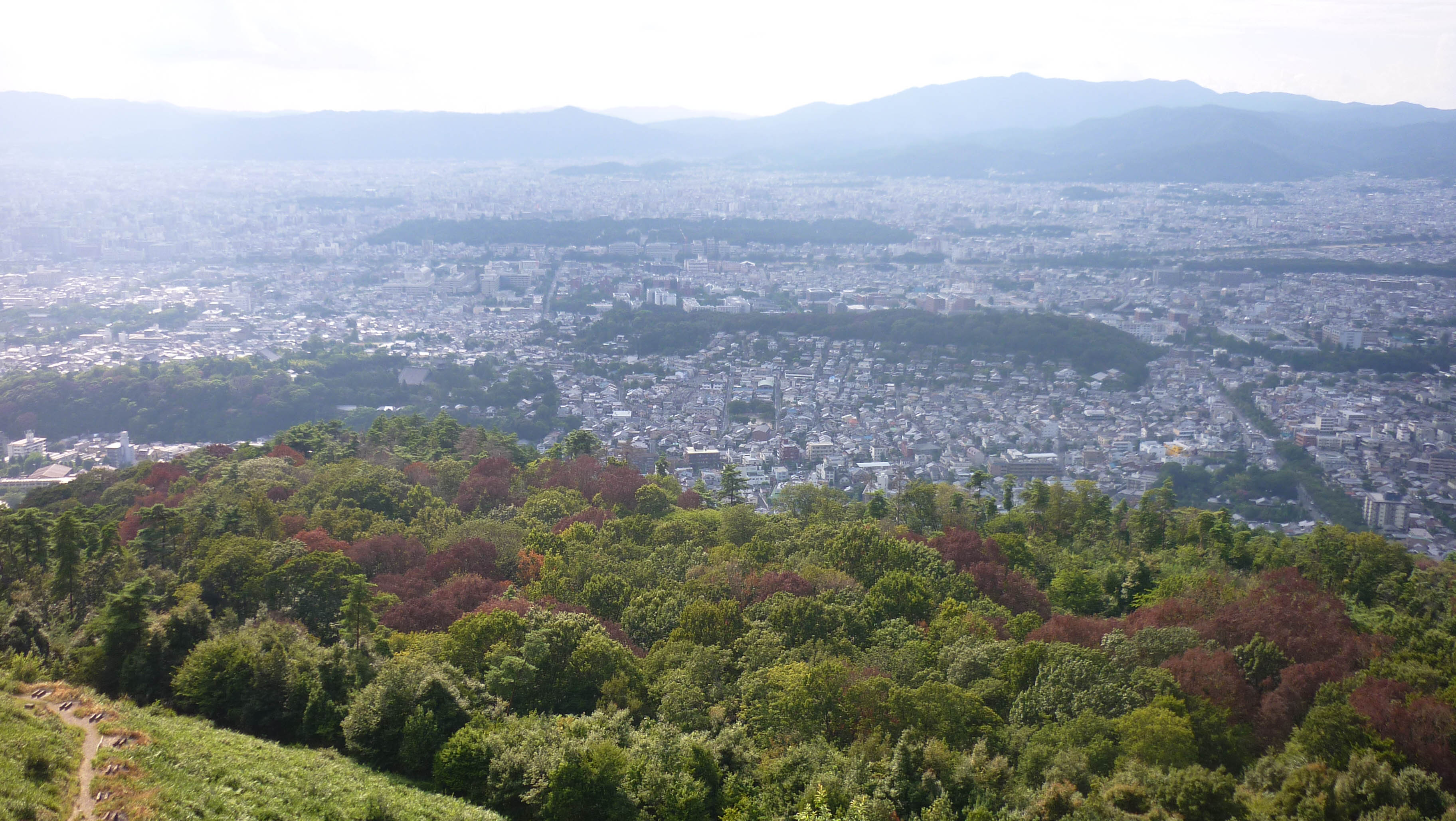 Cityscape of Kyoto as seen from the fire bed of Gozan no okuribi on Mount Daimonji